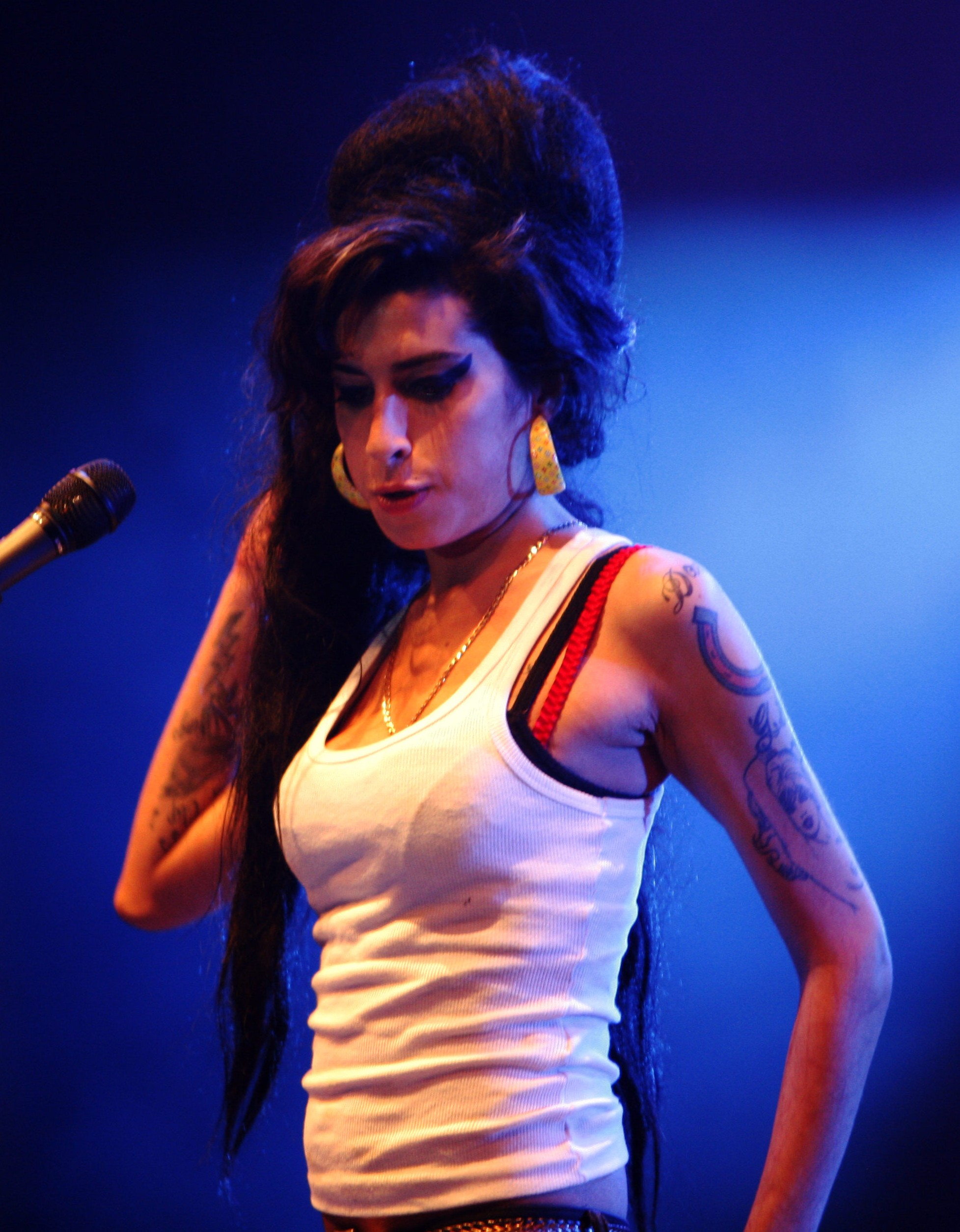 Amy Winehouse at the Eurockéennes of 2007